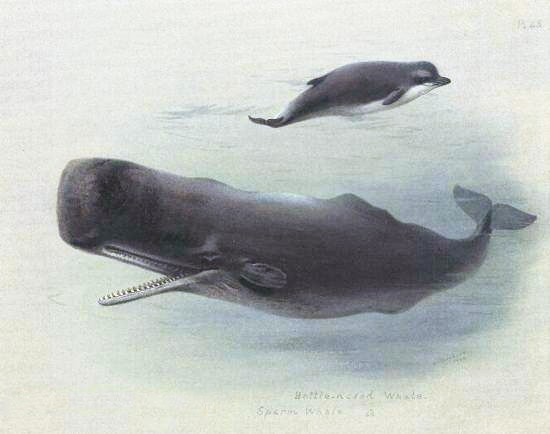 Sperm whale (cachalote) and Bottlenose whale